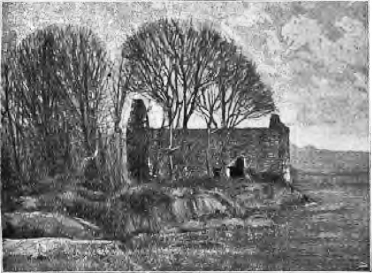 Ruins of the church of Shirq in Northern Albania, ca. 1900 – image taken from the book of Theodor Ippen "Skutari und die nordalbanische Küstenebene", published in 1907